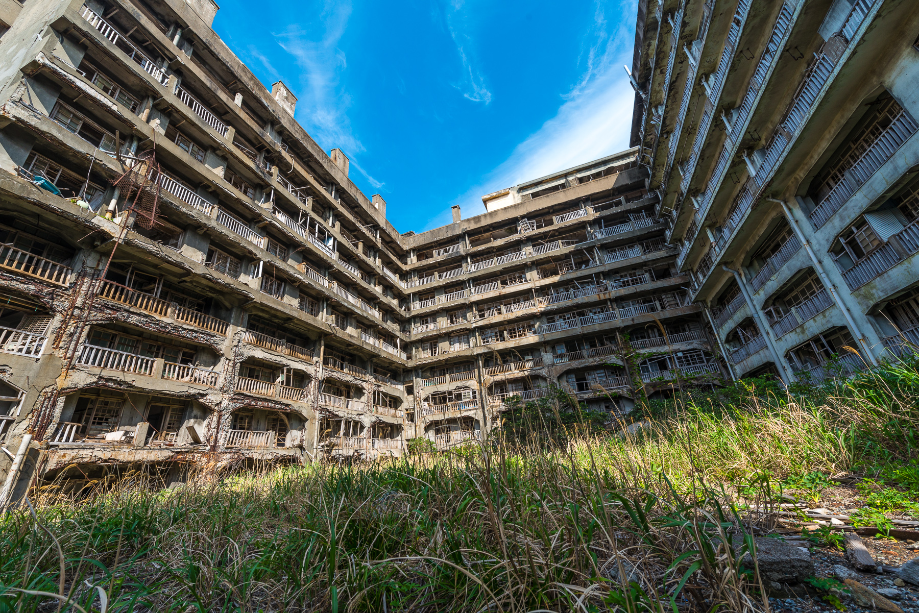 The Block 65 on Gunkanjima in 2012.